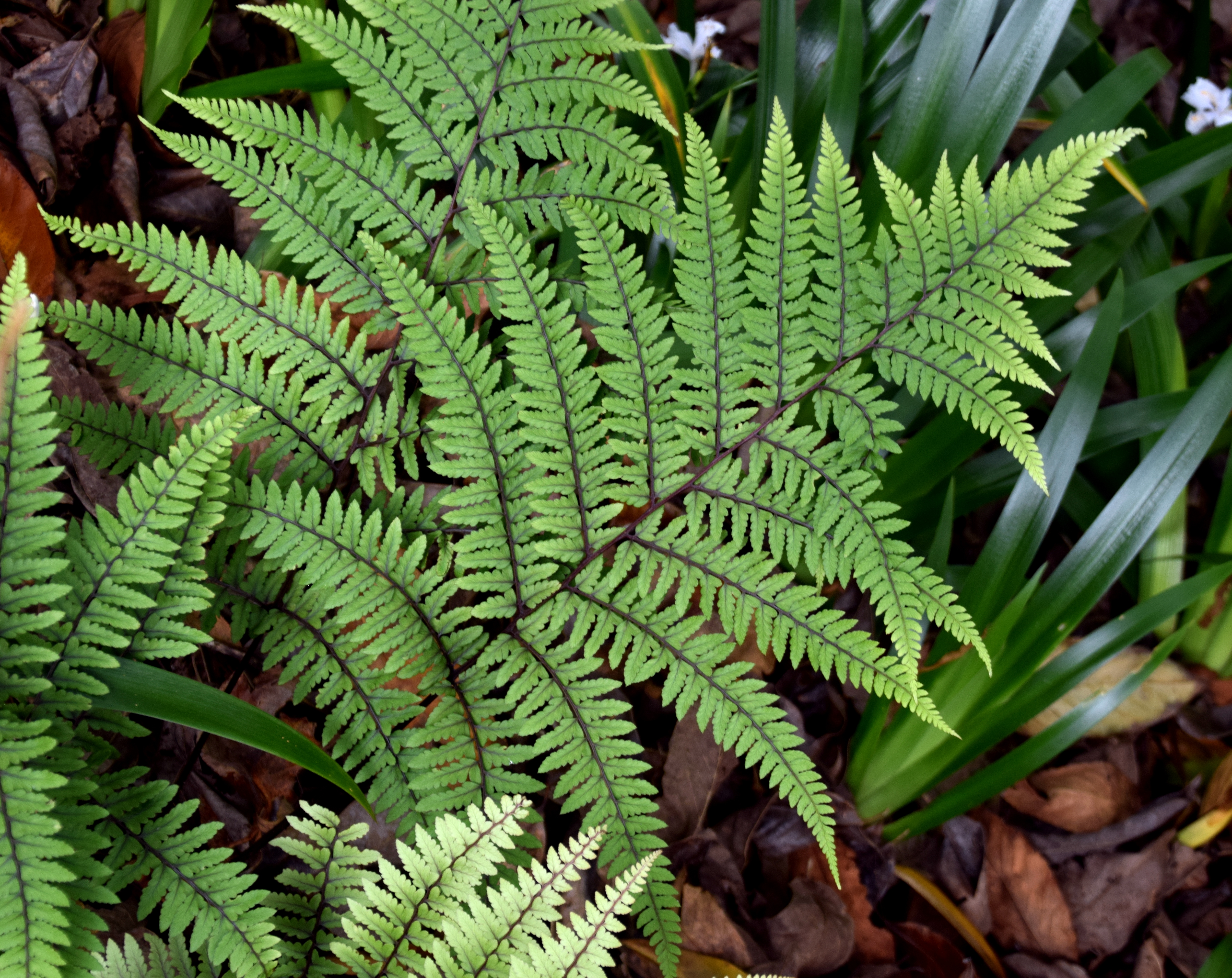 Athyrium otophorum in Auckland Botanic Gardens, Manurewa, South Auckland, New Zealand